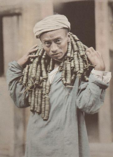 An old photograph of a Sichuanese man carrying 13.500 cash coins.